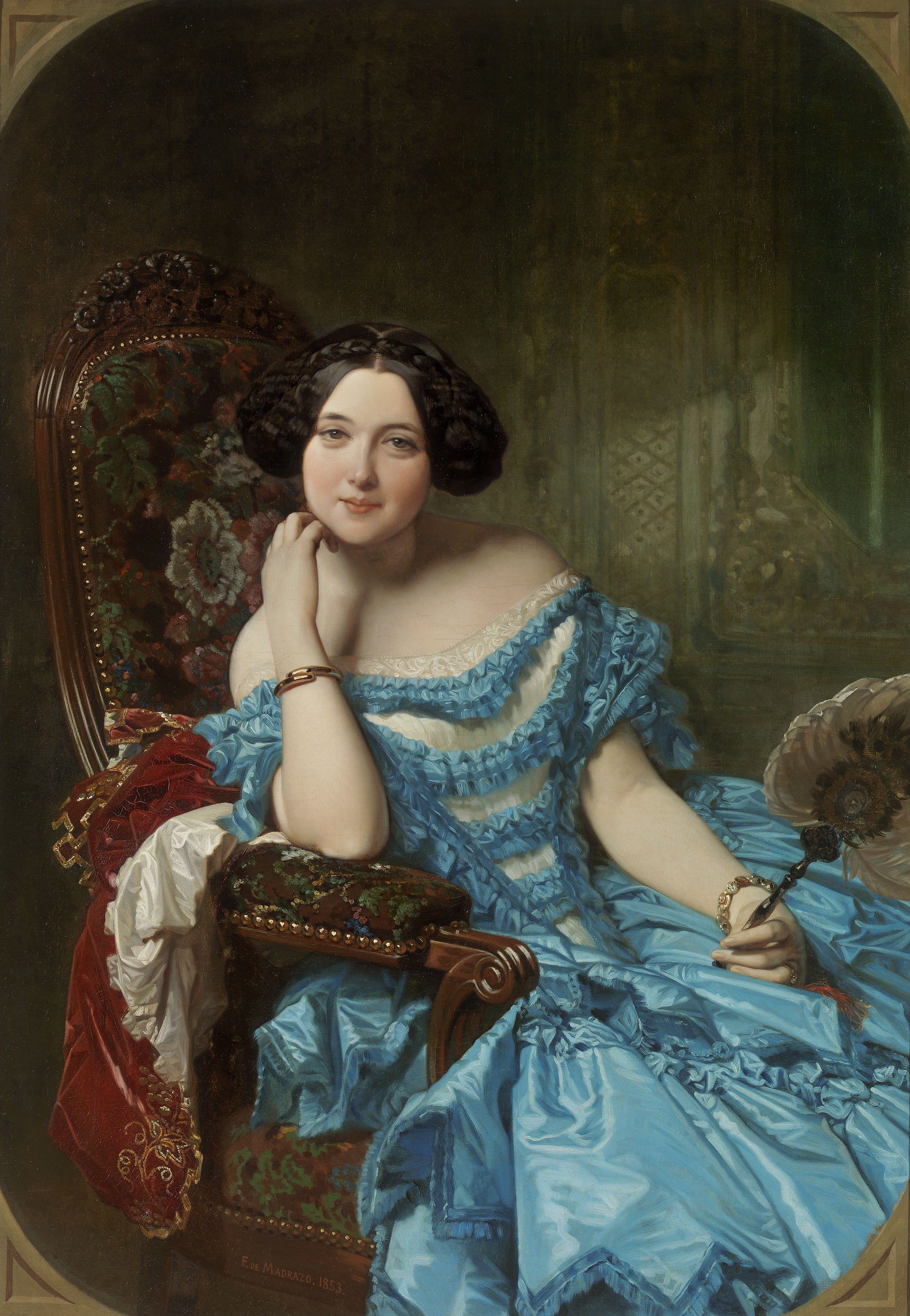 As a masterpiece of Spanish romantic portraits and the most attractive female portraits of the artist, it is undoubtedly the most emblematic work of the collections of the 19th century the Prado. Madrazo reached in this work the pinnacle of his mature production, this time with its painstaking refinement, serving one of the most beautiful and charming women of Madrid during the reign of Isabell II of Spain (1833-1868). The portrait has been created with a distinctly French air, well suited to the elegance of the model, that Madrazo learned during his training in Paris with Ingres. The pose of the lady conveys inspiration outside of the Spanish tradition. The coquettish pose of the model is nevertheless studiously casual, which serves to give the work a graceful movement. The lighting used by Madrazo makes the whiteness of female skin tones stand out against the dark background, while accentuating the color. The subtlety of certain gestures of the model, as the delicacy of holding the fan, the almost imperceptible touch of her fingers with her oval face or the sweet smile, echoed by her seductive look, all serves to show the magnificence of this portrait.